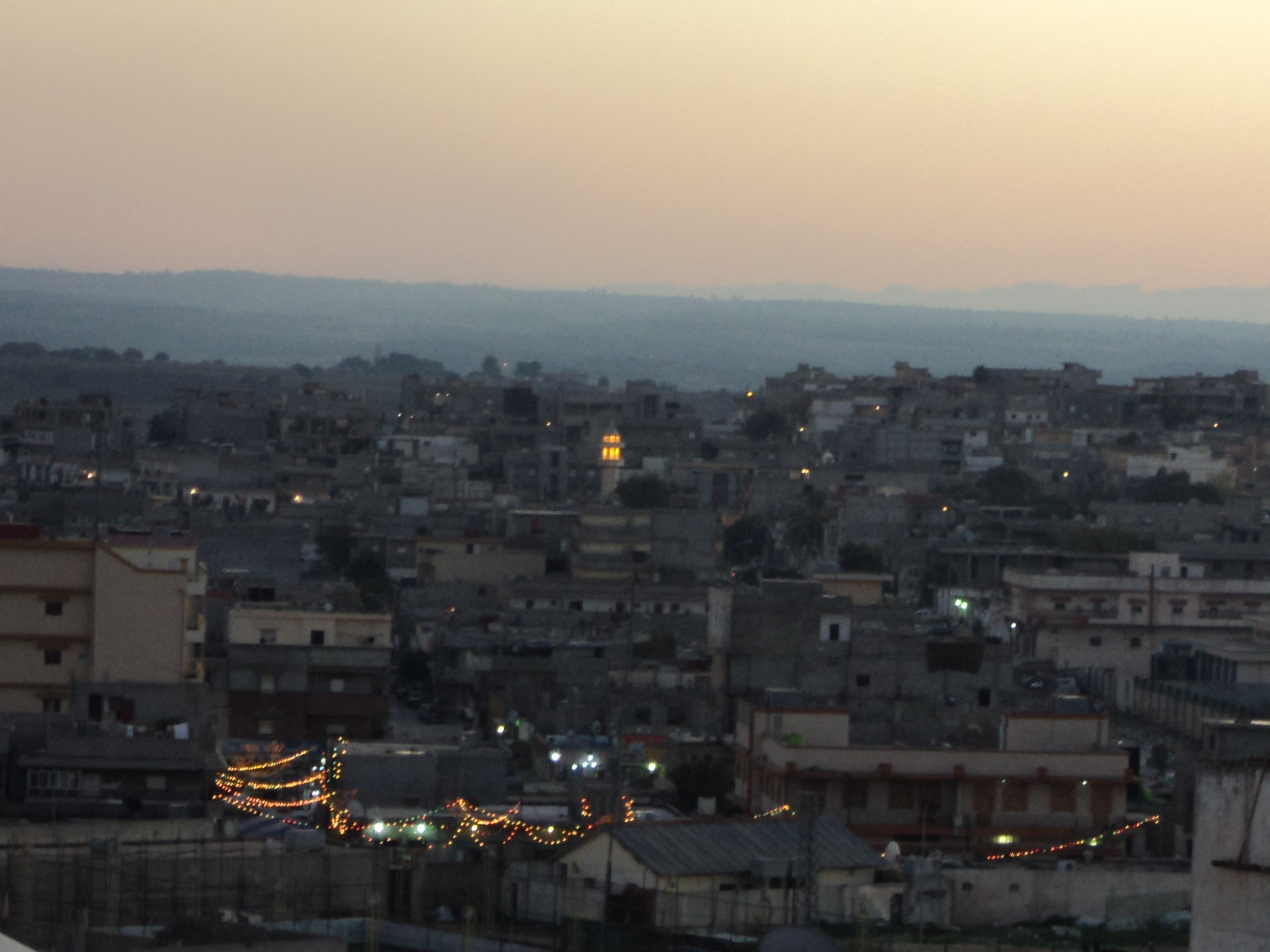 Neighborhood of Al Khansa - Bayda - Libya.